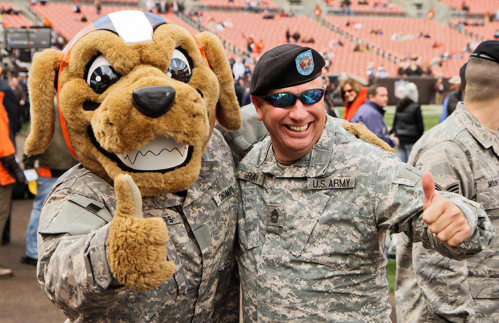 Cleveland Browns mascot Chomps poses for photographs with Master Sgt. Chuck Gray of the 371st Sustainment Brigade Headquarters and Headquarters Company out of Kettering, Ohio, as Gray and other members of the Ohio National Guard practice for a pre-game show in the Cleveland Browns Stadium, Cleveland, Ohio, Nov. 7, 2010. The Ohio National Guard members, along with more than 100 other military service members from all branches, were invited to attend the Browns' home game against the New England Patriots and participate in pre-game and half-time events honoring veterans. With more than 80 Ohio Guard members cheering from the stands, the Browns won 34-14. (Ohio National Guard photo by Sgt. Sean Mathis) (Released)